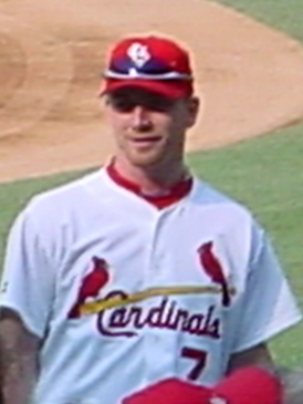 Cropped picture of J.D. Drew near the warning track that was down the right field line at Busch Memorial Stadium during "Photo Day," June 29, 2002. Taken at 5:31 pm Central Standard Time from the field level seating area with a Sony Cybershot digital camera.